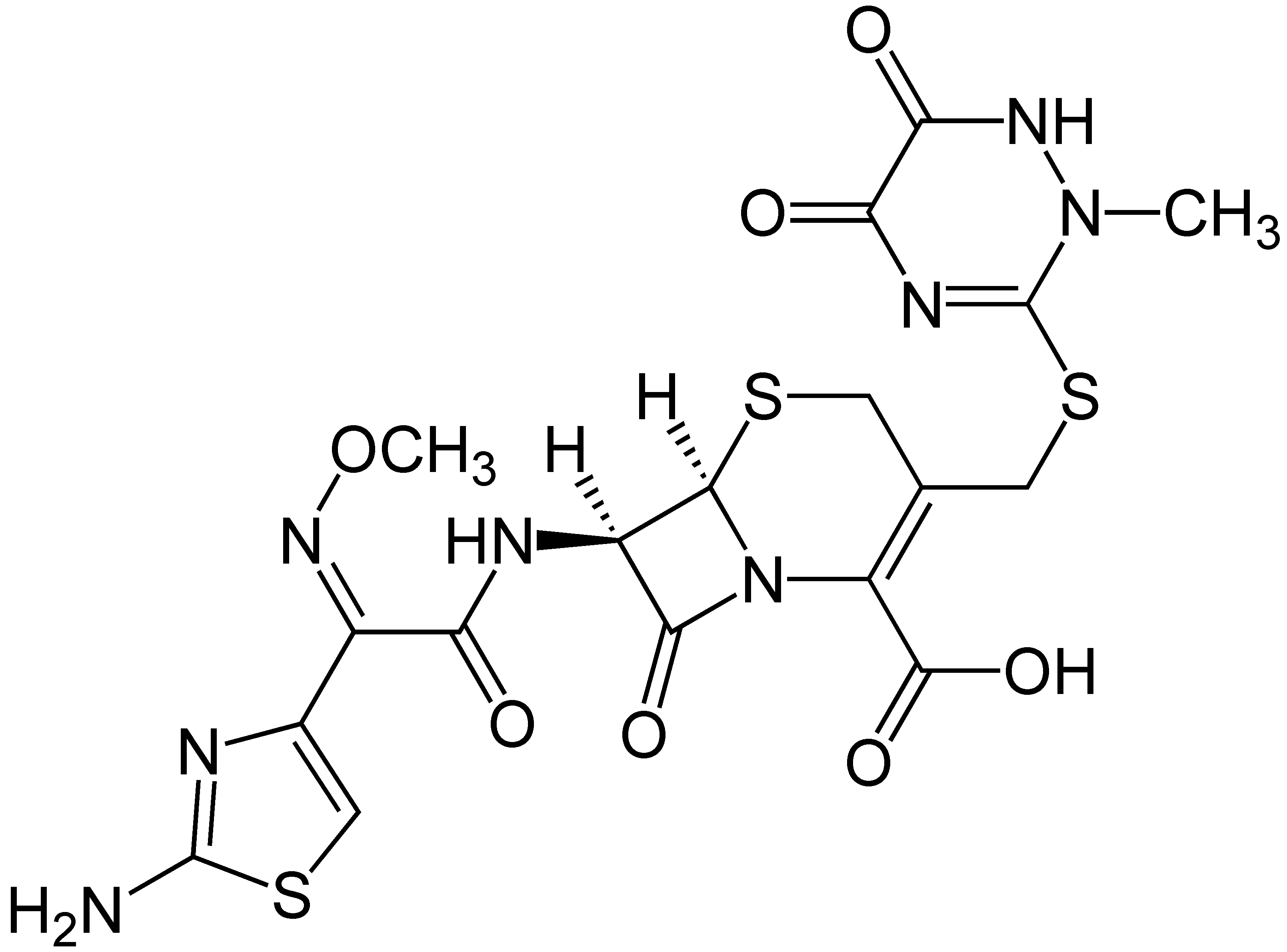 Ceftriaxone formulae with stereochemistry